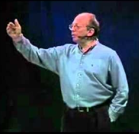 Russian translator, writer and radio journalist Leonid Volodarskiy